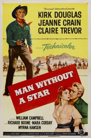 Poster for Man Without a Star, Copyright © 1955 by Universal-International Pictures.